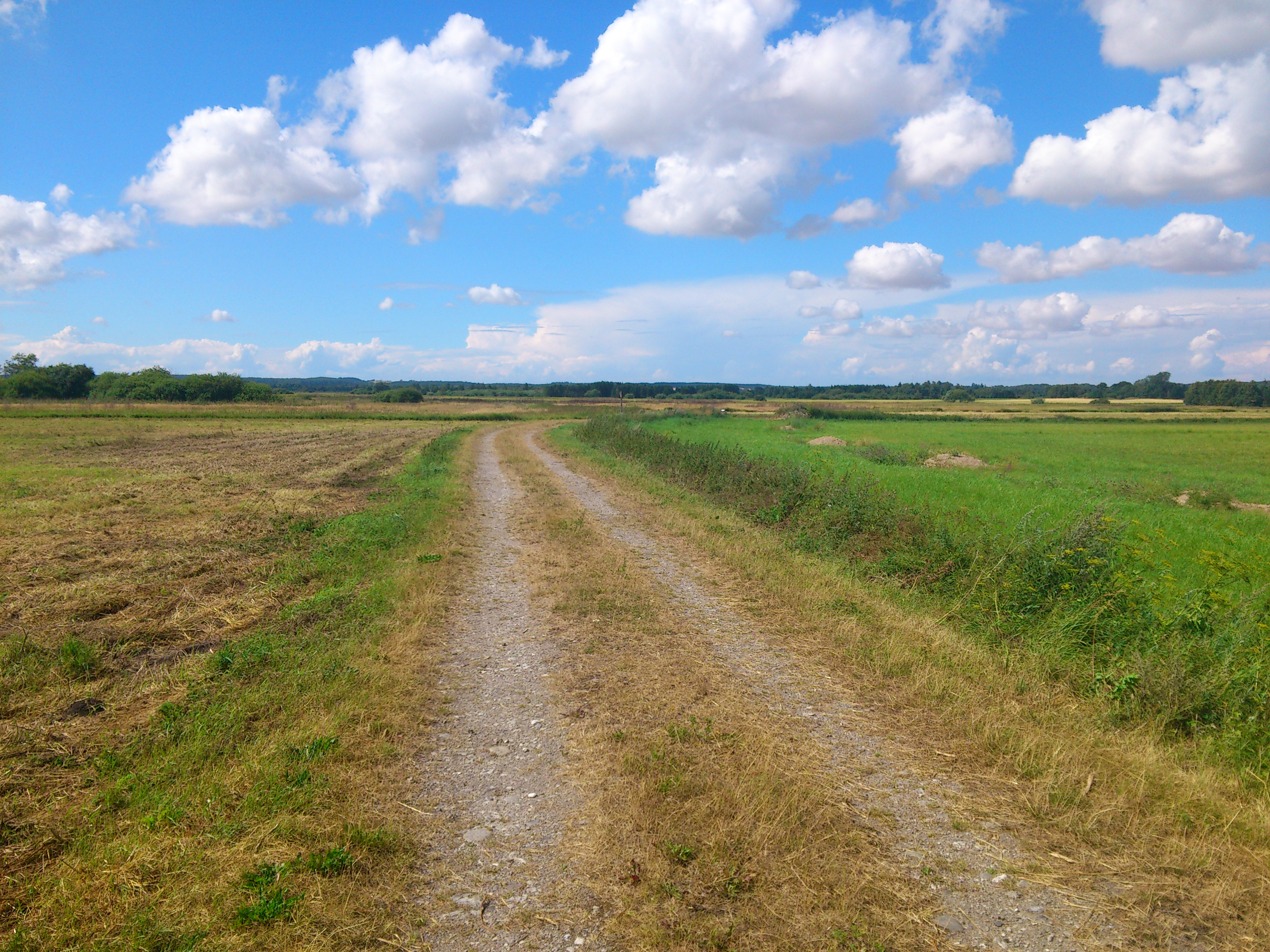 From "Store Åmose", the largest lowland bog in Denmark.